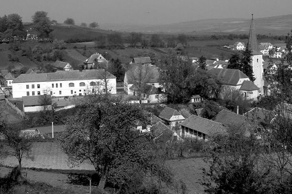 view of Jidvei (Seiden, Zsidve) village, Alba County, Romania